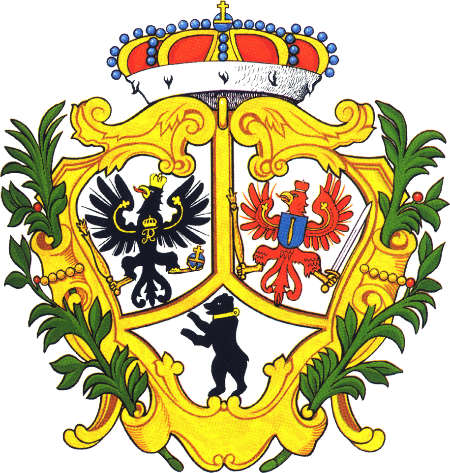 Big Coat of arms of Berlin from 1709.